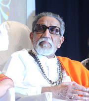 Lata Mangeshkar, Bal Thackeray and Madhuri Dixit at 70th Master Dinanath Mangeshkar Awards